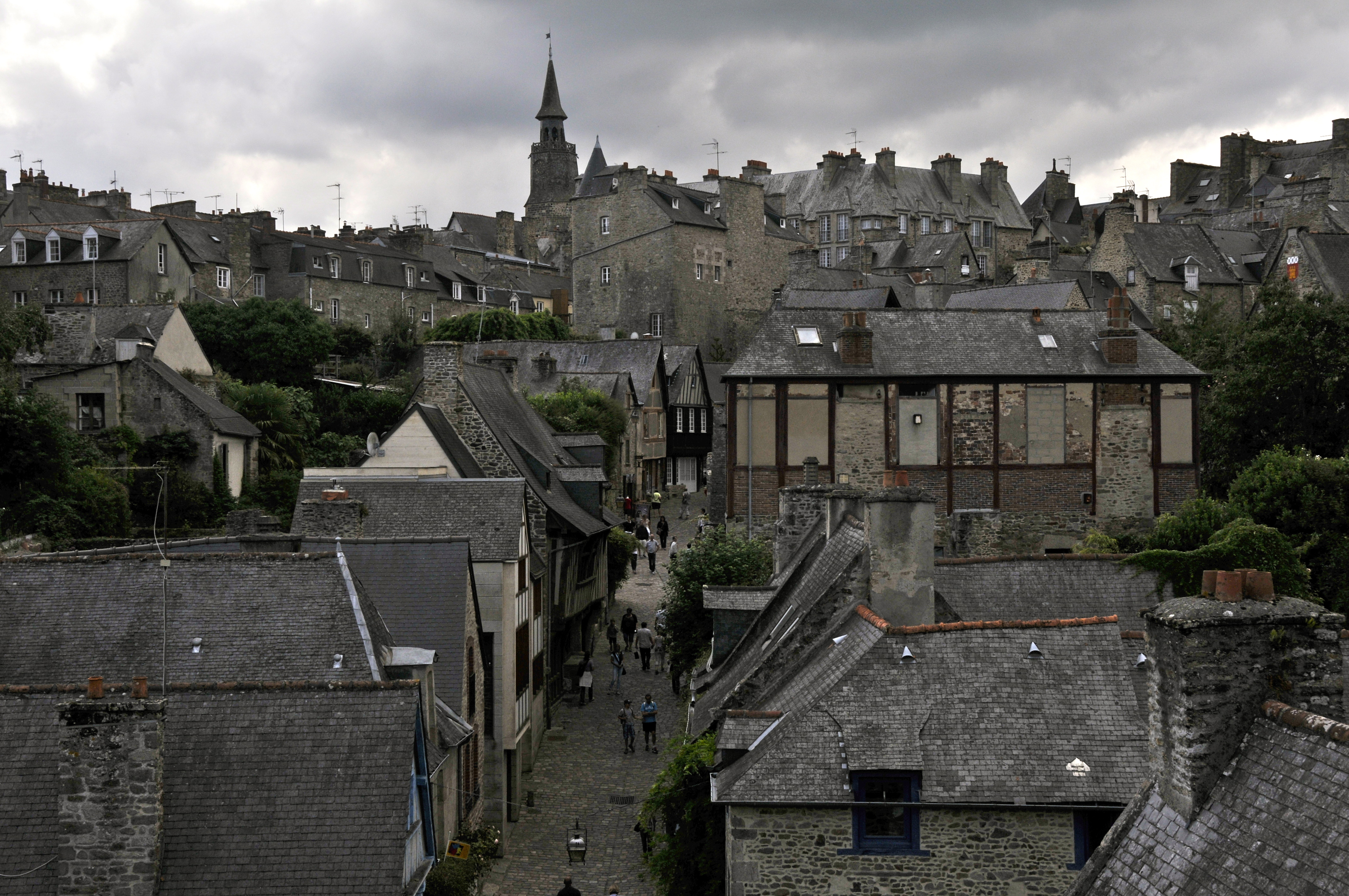 TEJADOS DESDE LA MURALLA